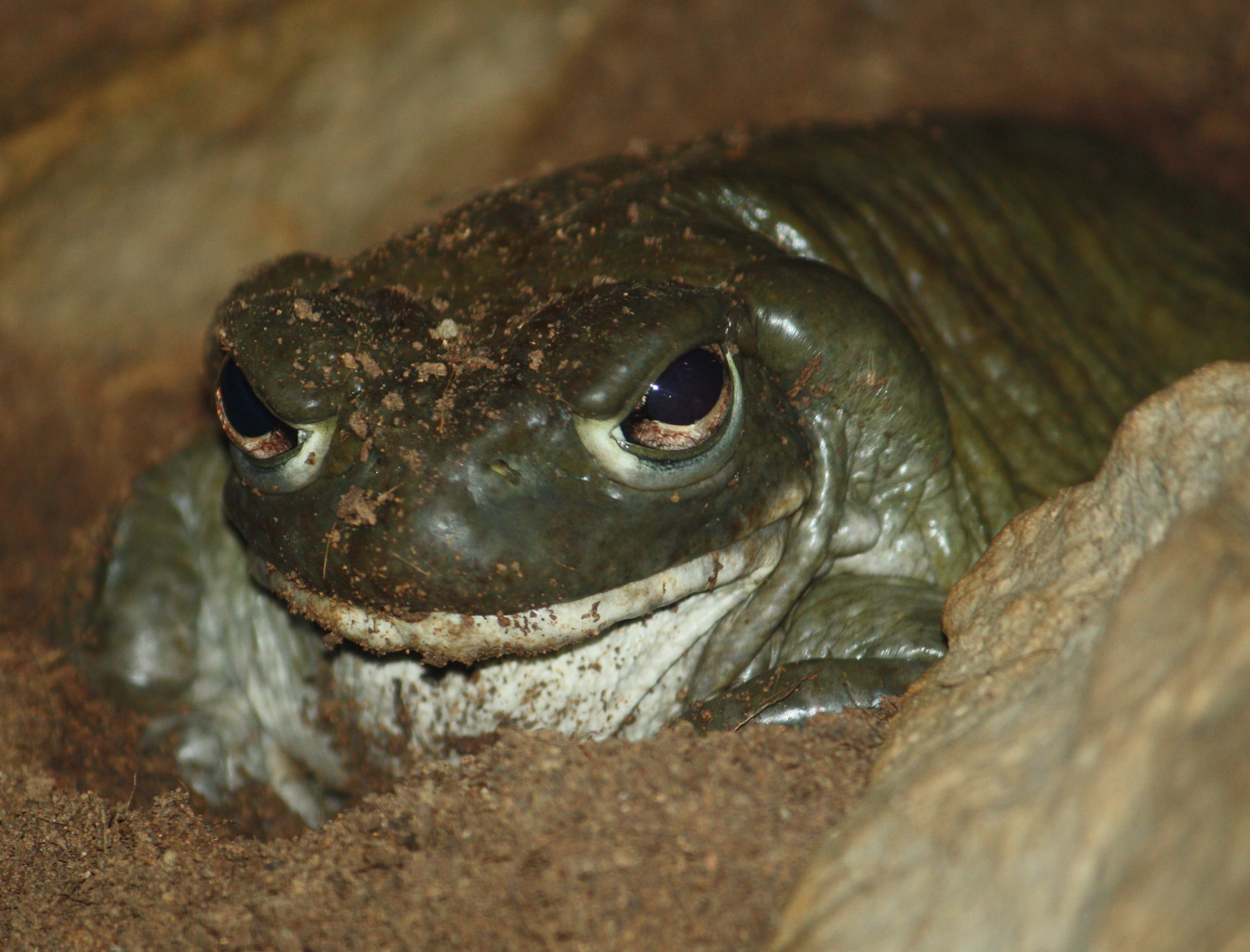 Sonoran Desert Toad Bufo alvarius at the Louisville Zoo